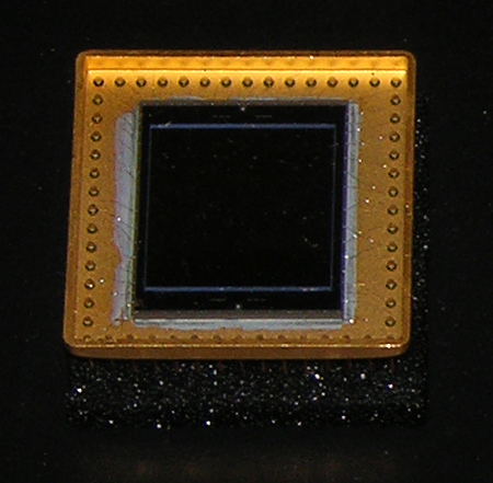 Hubble's Space Telescope Imaging Spectrograph CCD (1024 x 1024 pixels, aprox. 3 x 3 cm)